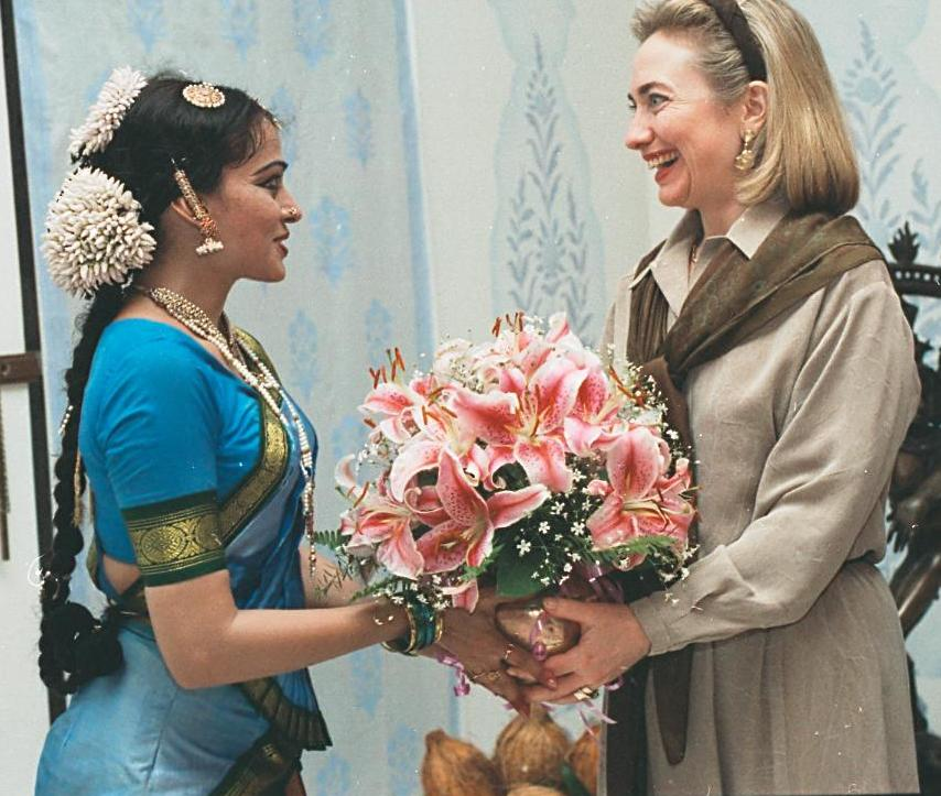 At the evening reception at American Ambassador's residence in New Delhi. The reception included a Bharatnatyam dance recital by Malavika Sarukkai of Madras.